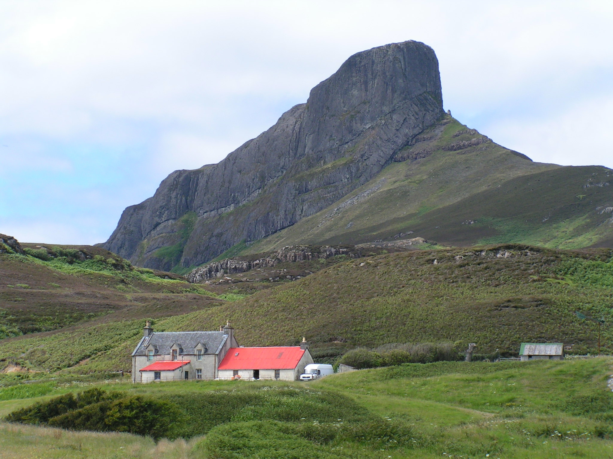 An Sgurr, the highest hill on the Inner Hebridean island of Eigg, Lochaber, Highland, Scotland, August 2005.